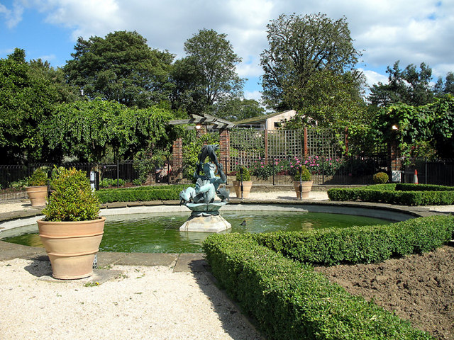 Golders Hill Park Original description: Formal Garden Box hedges and flowerpots with Box bushes surround a pond and fountain in Golders Hill Park. The flower beds have been dug over in preparation for the next display.